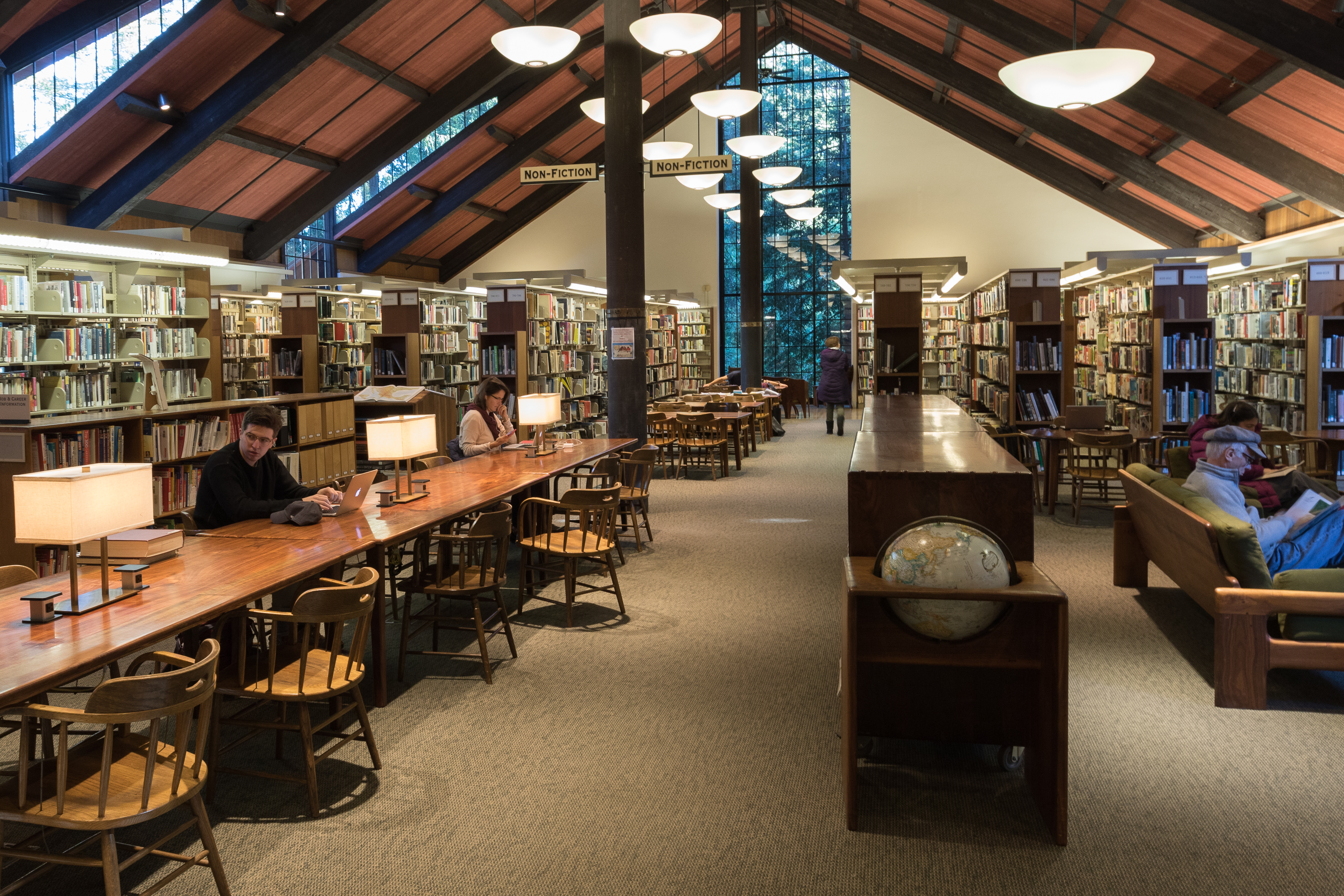 Mill Valley Public Library, 375 Throckmorton Ave, Mill Valley, CA 94941. Main reading room.